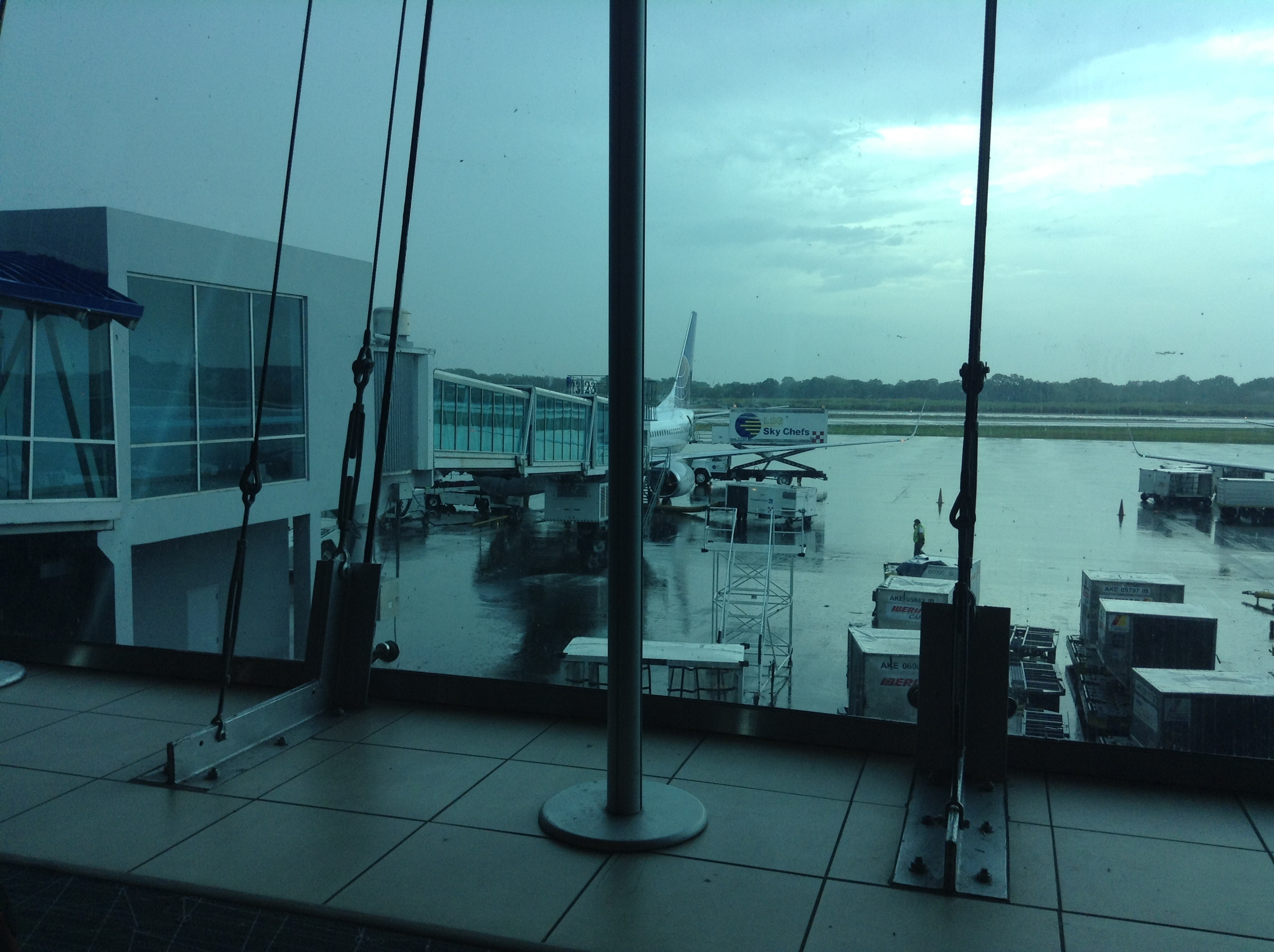 Flughafen Tocumen